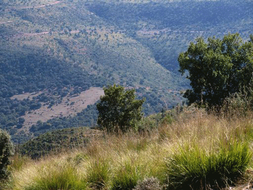 Mount of Tlemcen - Algérie